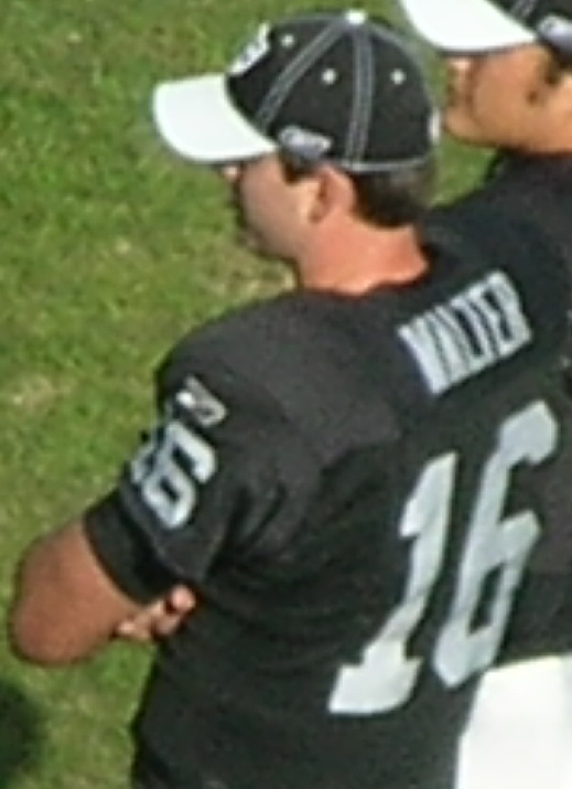 Oakland Raiders quarterbacks JaMarcus Russell (#2), offensive coordinator Greg Knapp, and backup quarterbacks Andrew Walter (#16) and Marques Tuiasosopo are in a huddle during a home game against the Atlanta Falcons. The Falcons won 24-0.